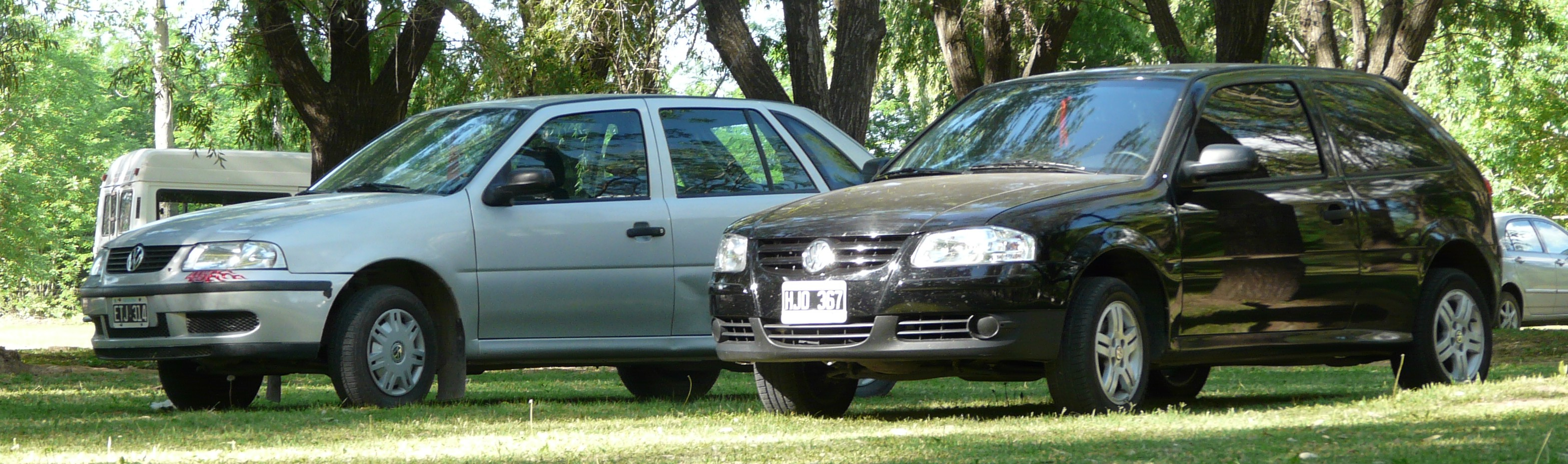 Volkswagen Gols (Gol G3 5-door on left, Gol G4 3-door on right), San Antonio de Areco, Argentina, November 2008.